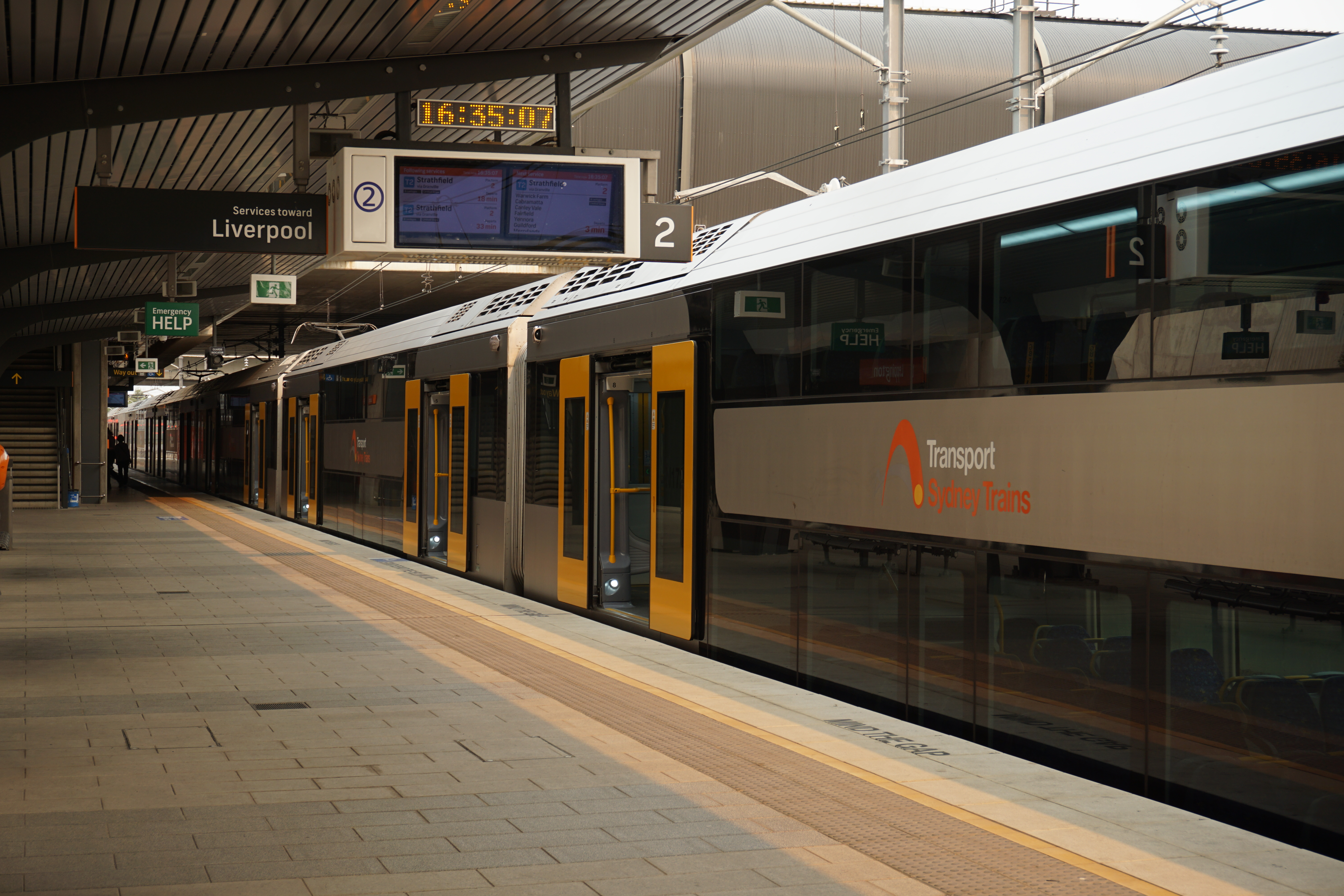 Sydney Train at Leppington Station